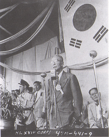 Seo Jaepil and Jo Byungok(reception of Seo Jae-pil, july 1947, in Seoul)